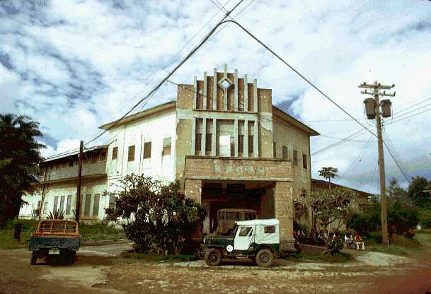 Former Nan'yo-cho Palau Branch Office Building in 1967